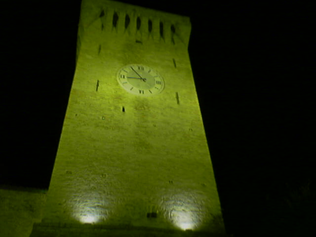 Tower of Porto Recanati Castle, by night